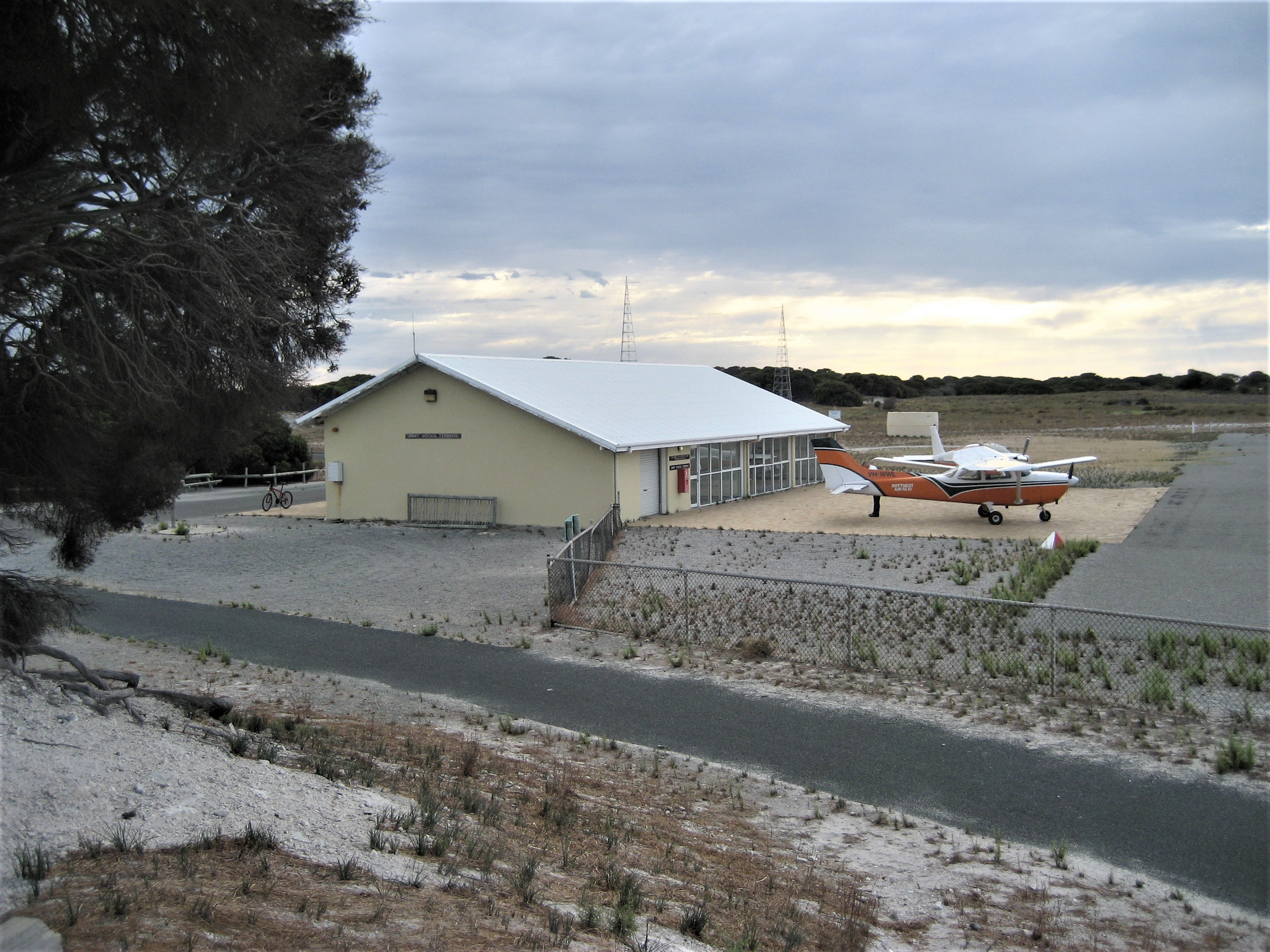 Rottnest Island, Western Australia